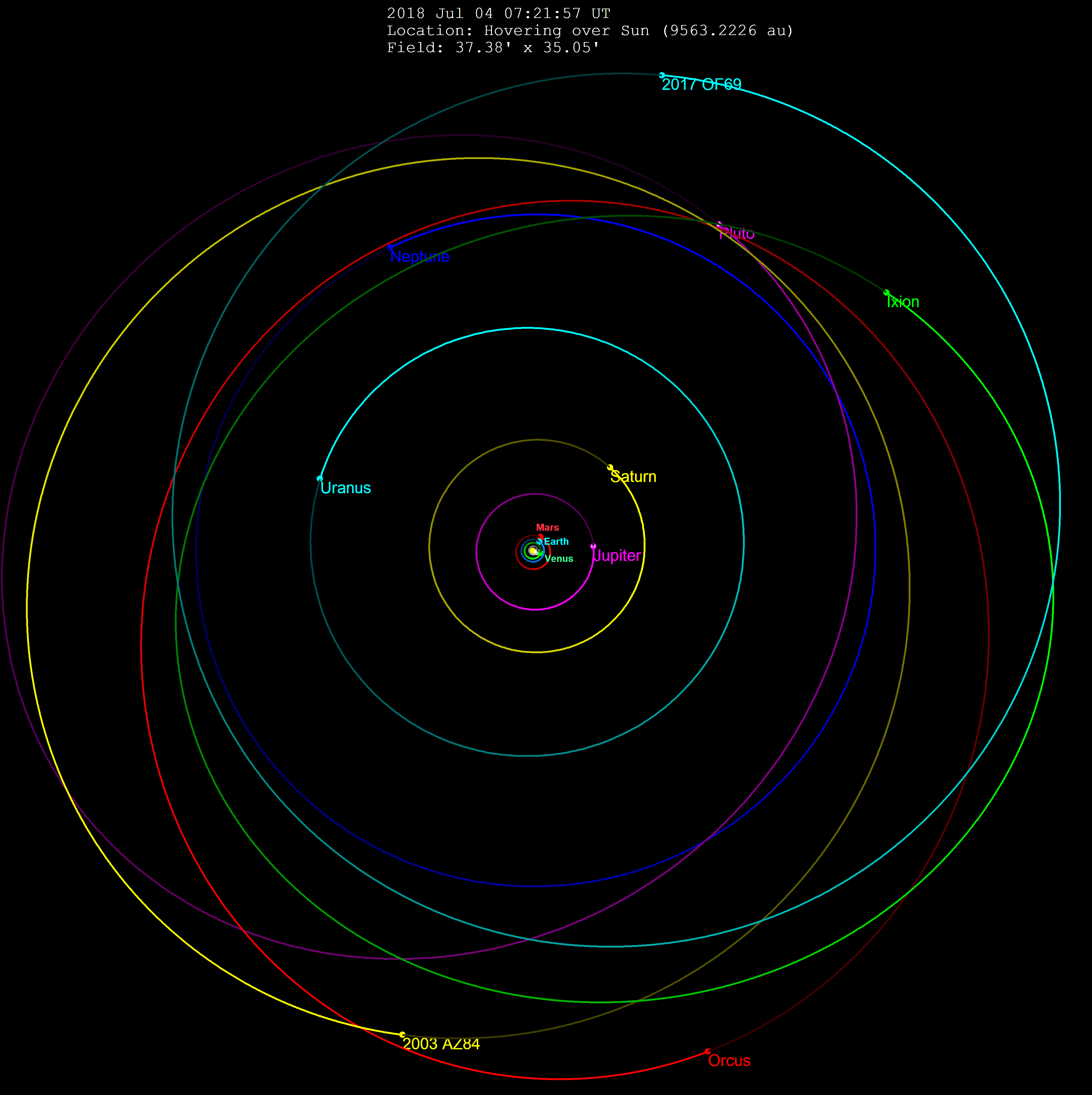 Orbits of several plutinos: Pluto, Orcus, 2003 AZ84, Ixion and 2017 OF69